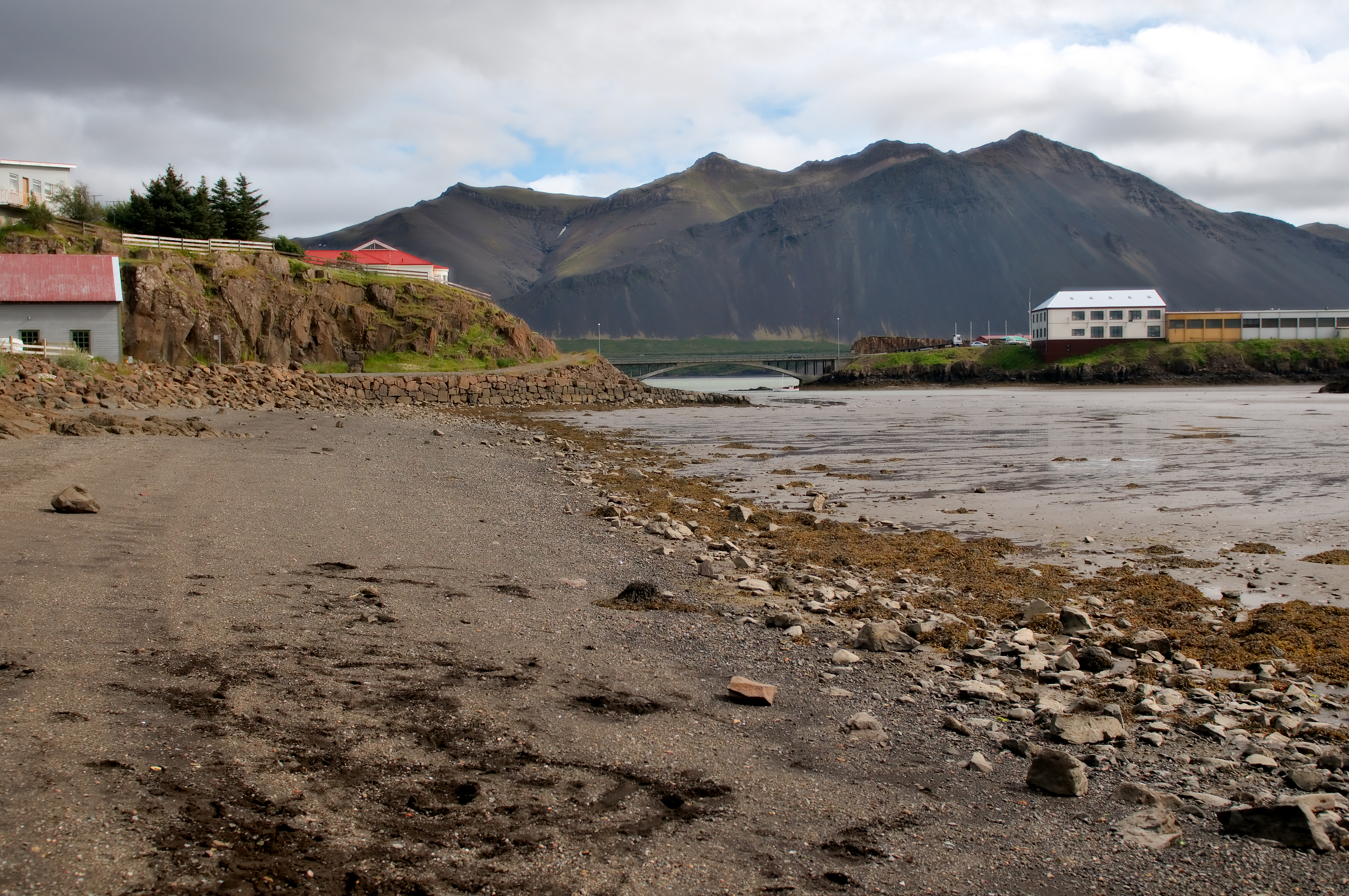 Borganes Beach near the port - Low tide